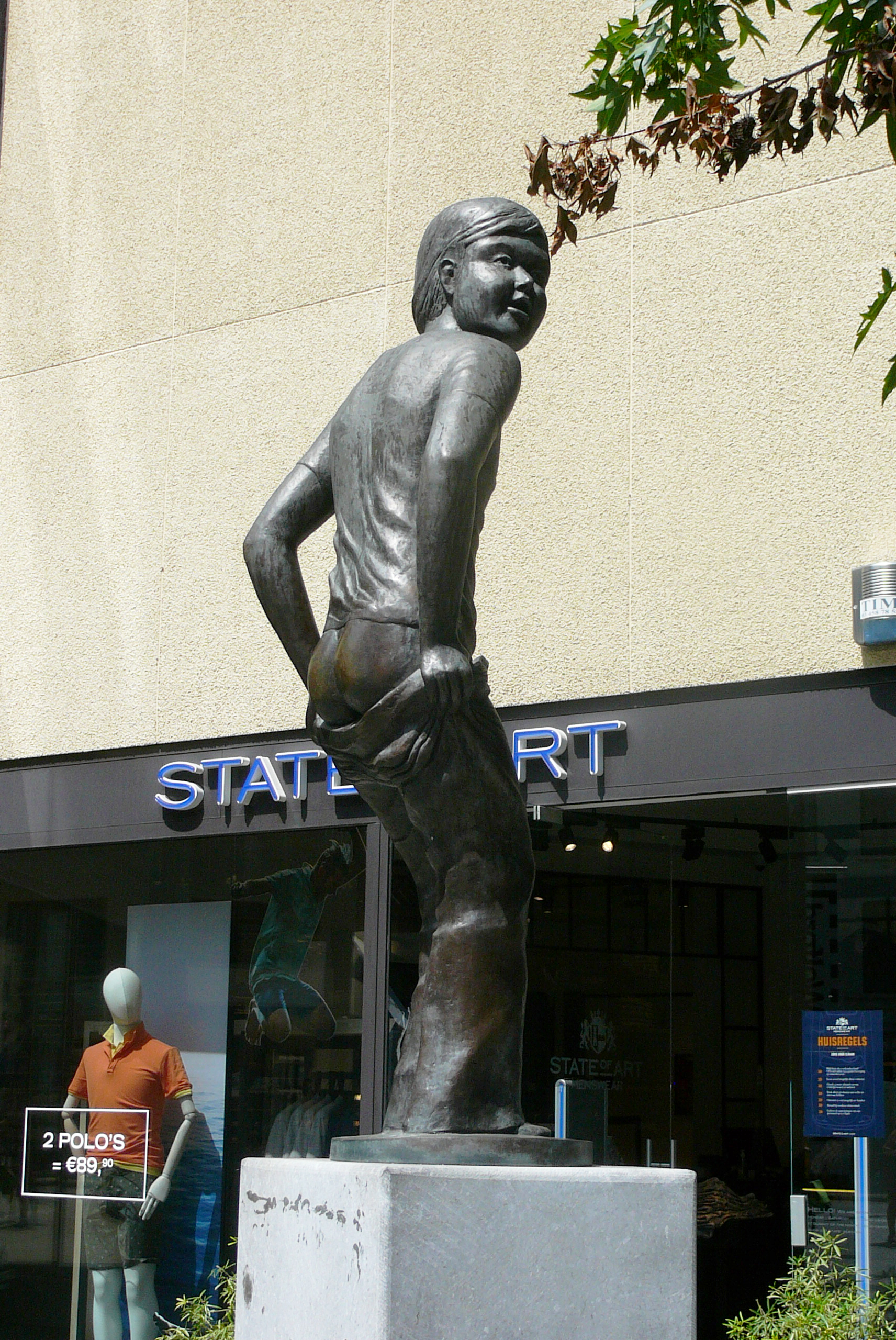 Statue "Den deugniet" (The rascal) by Luc Verlee (1976), in the Korte Gasthuisstraat, in Antwerp, Belgium, representing a boy showing his bare bottom.